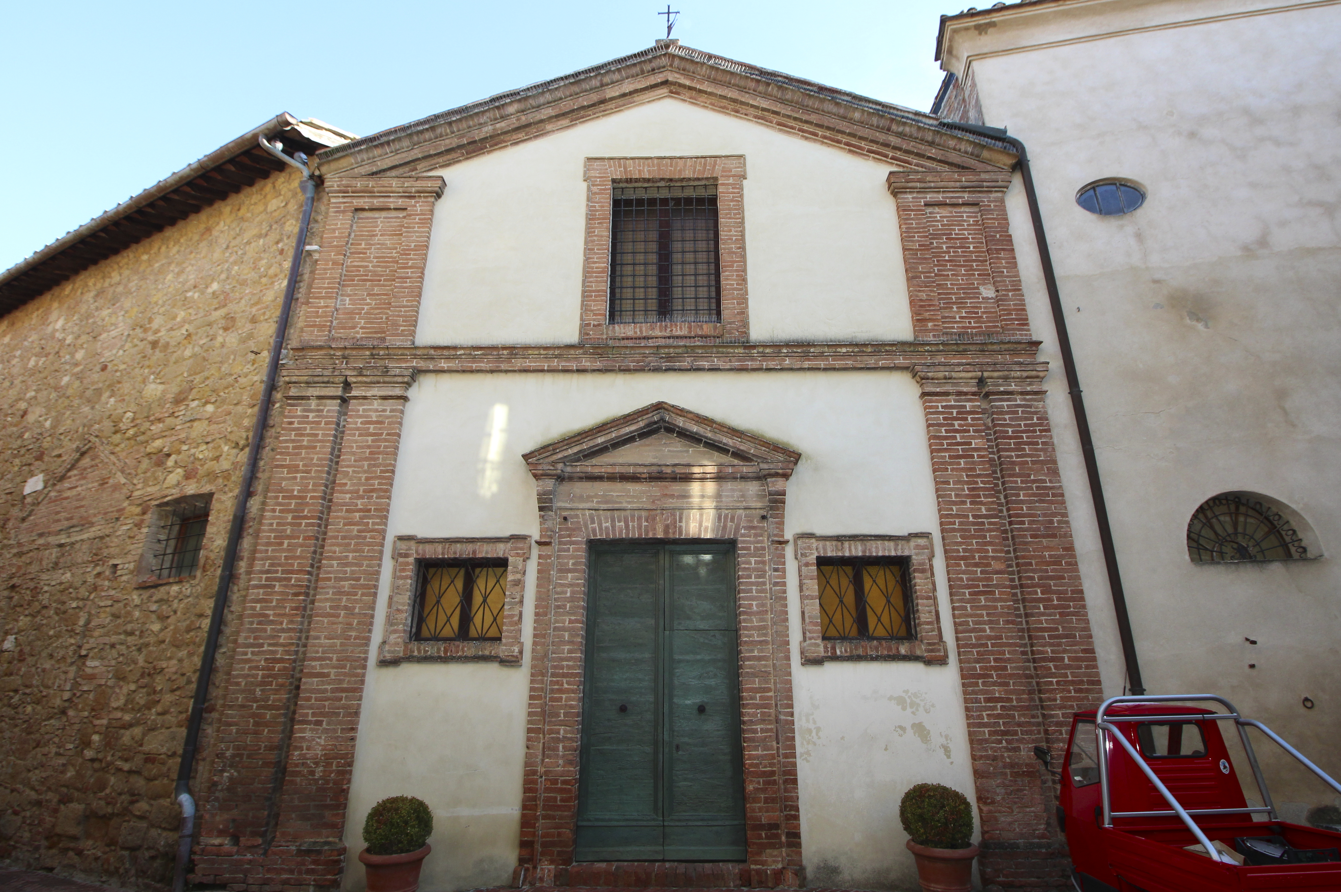 Church Chiesa di San Carlo (Conservatorio di San Carlo), Pienza, Province of Siena, Tuscany, Italy